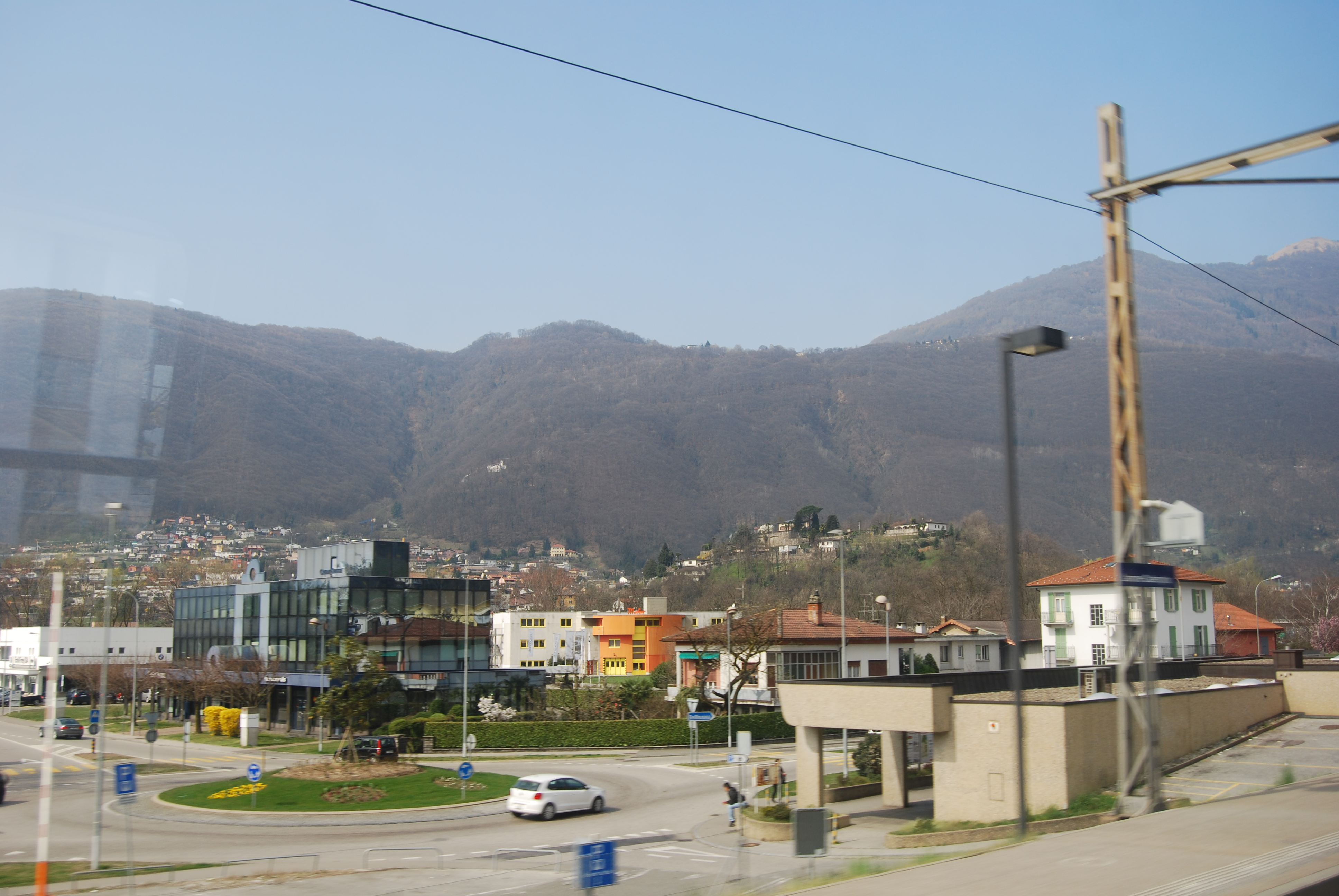 Trainstation Lamone-Cadempino, canton of Ticino, SwitzerlandEsperanto: Stacidomo Lamone-Cadempino, Kantono Tiĉino, Svislando